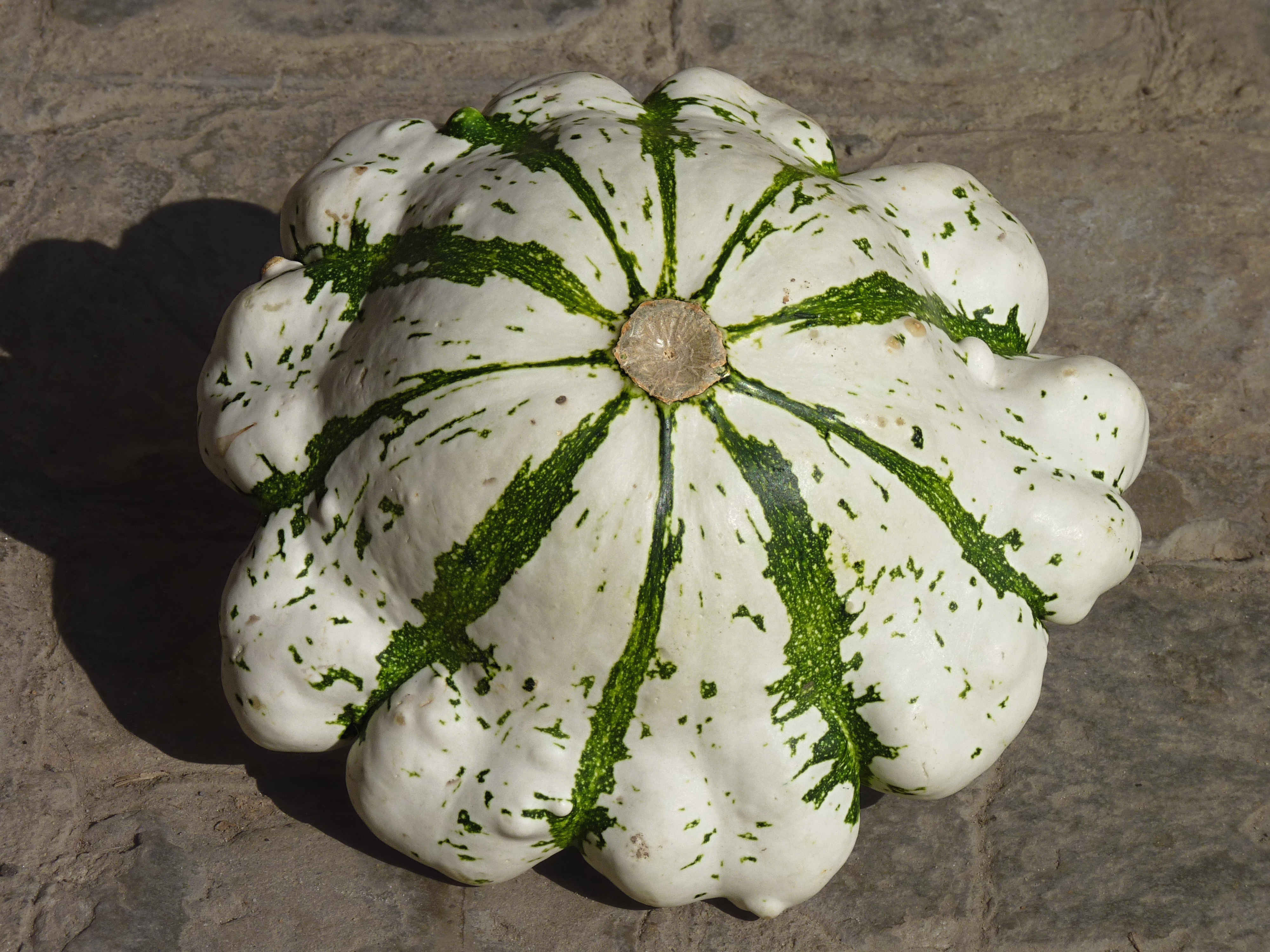 Pattypan squash, picture taken in Belgium.